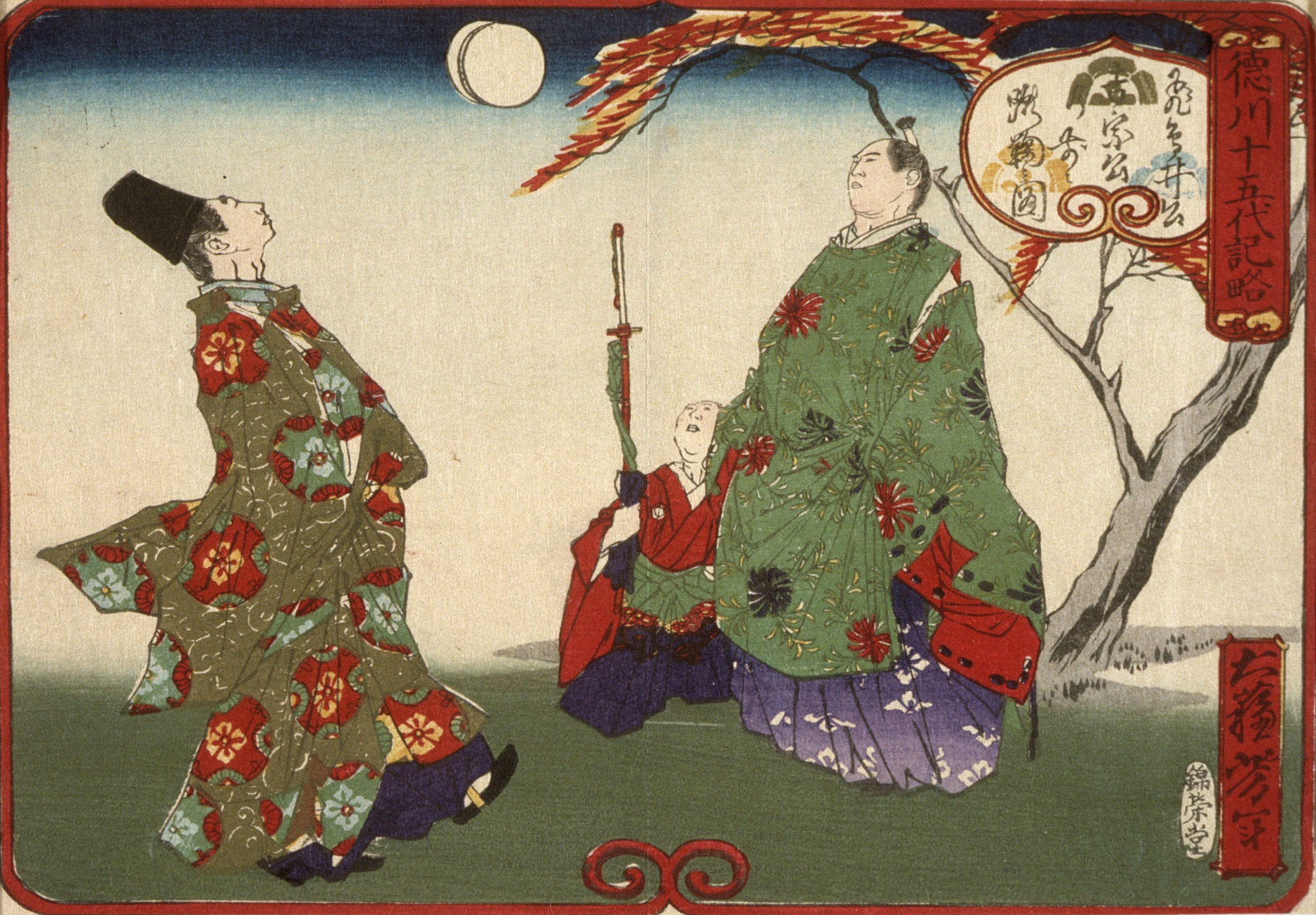 Japan, 7/1875 Series: Brief Account of the Rulers of the Tokugawa Clan Prints; woodcuts Color woodblock print Herbert R. Cole Collection (M.84.31.333) Japanese Art